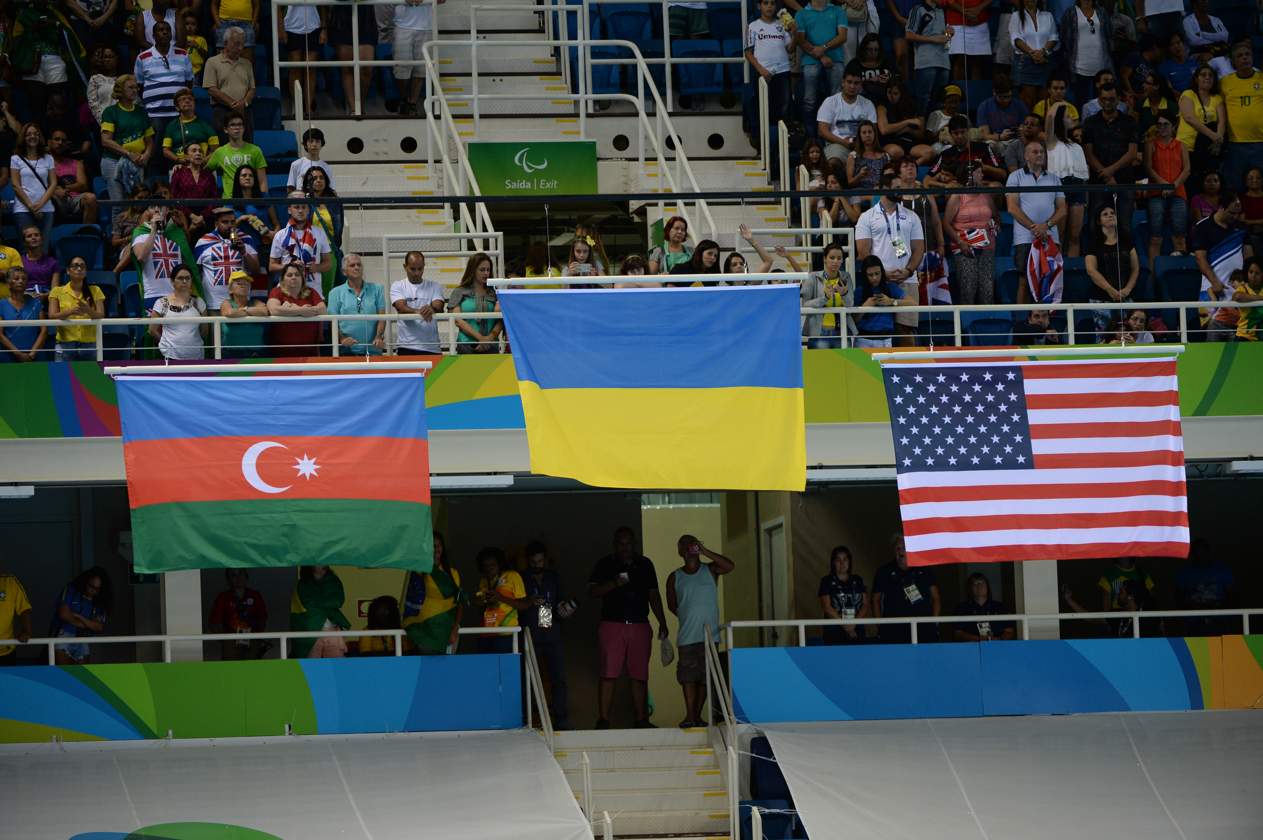 Raman Salei. Swimming at the 2016 Summer Paralympics – Men's 100 metre backstroke S12